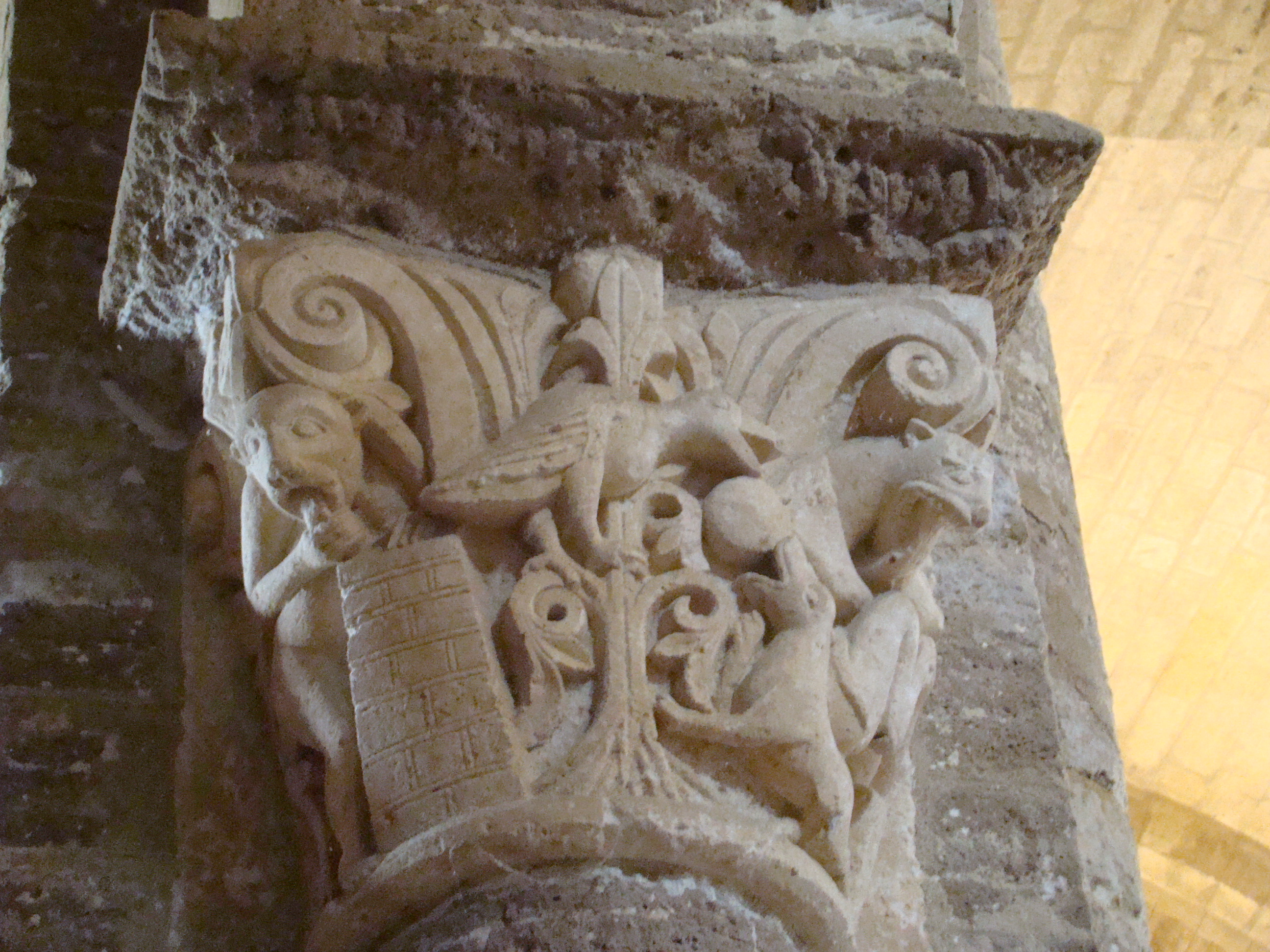 Capital representing the fable of the fox and the crow, in the romanesque church of San Martín of Fromista Palencia, Spain.